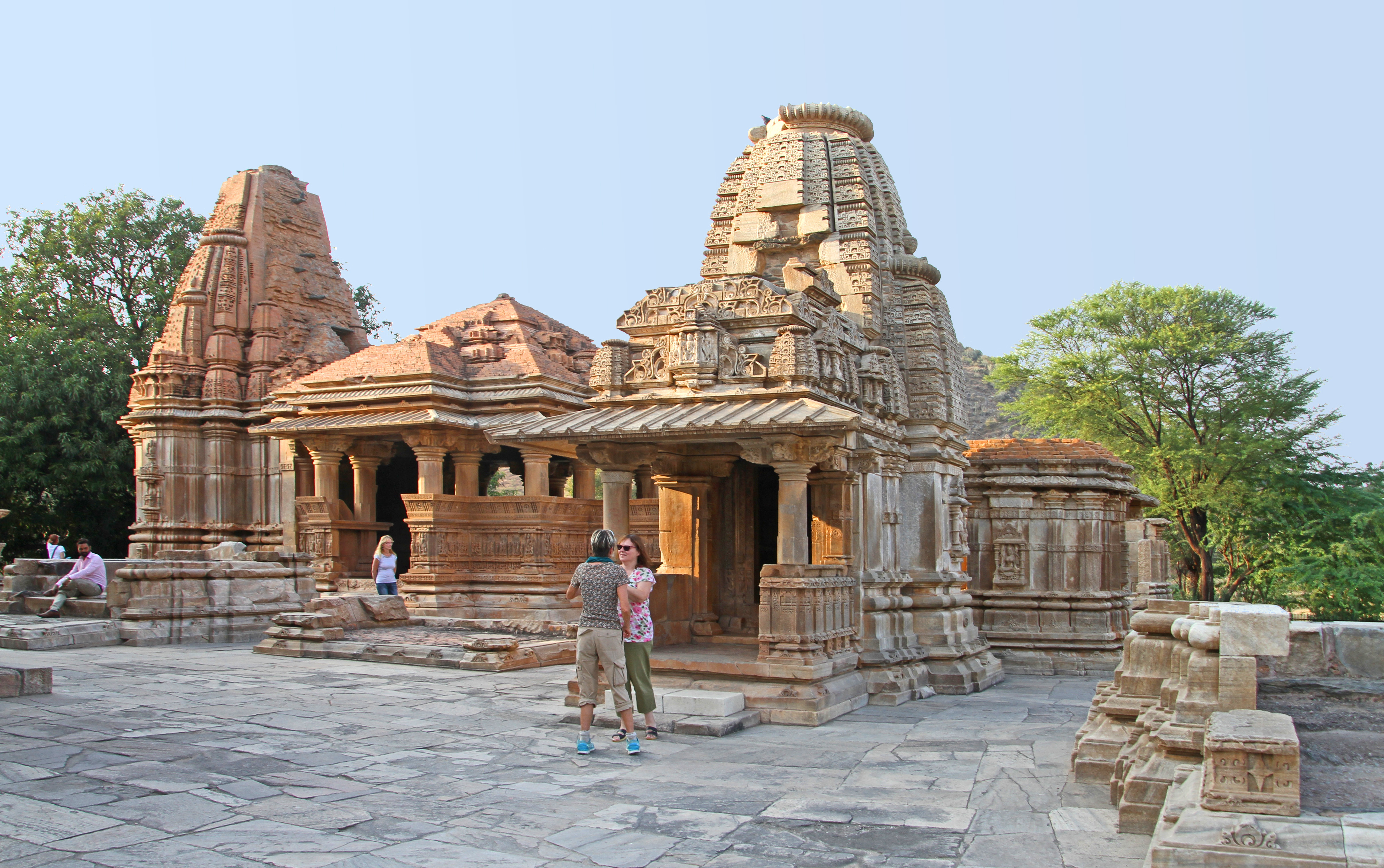 Nagda, Sas Bahu temple in India